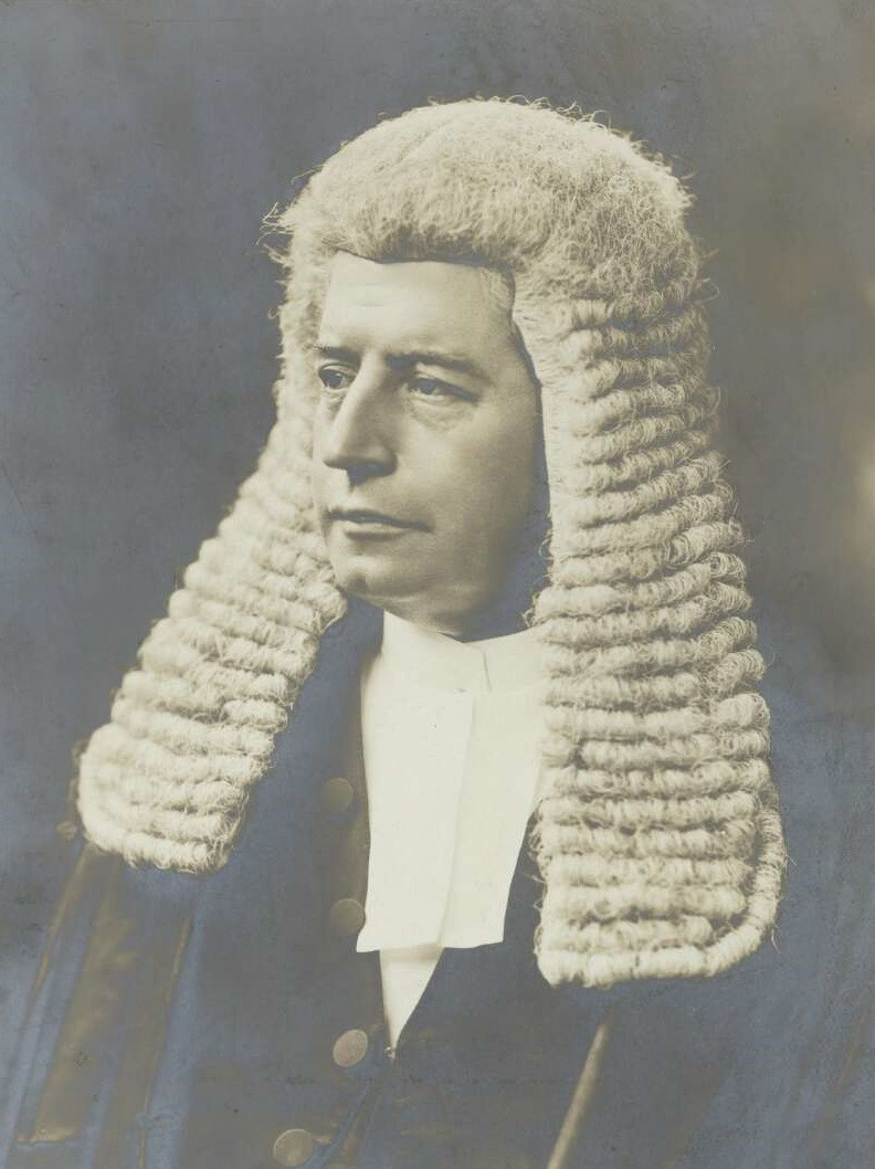 Edmund Barton (1849-1920) in 1903 as Justice of the High Court of Australia.